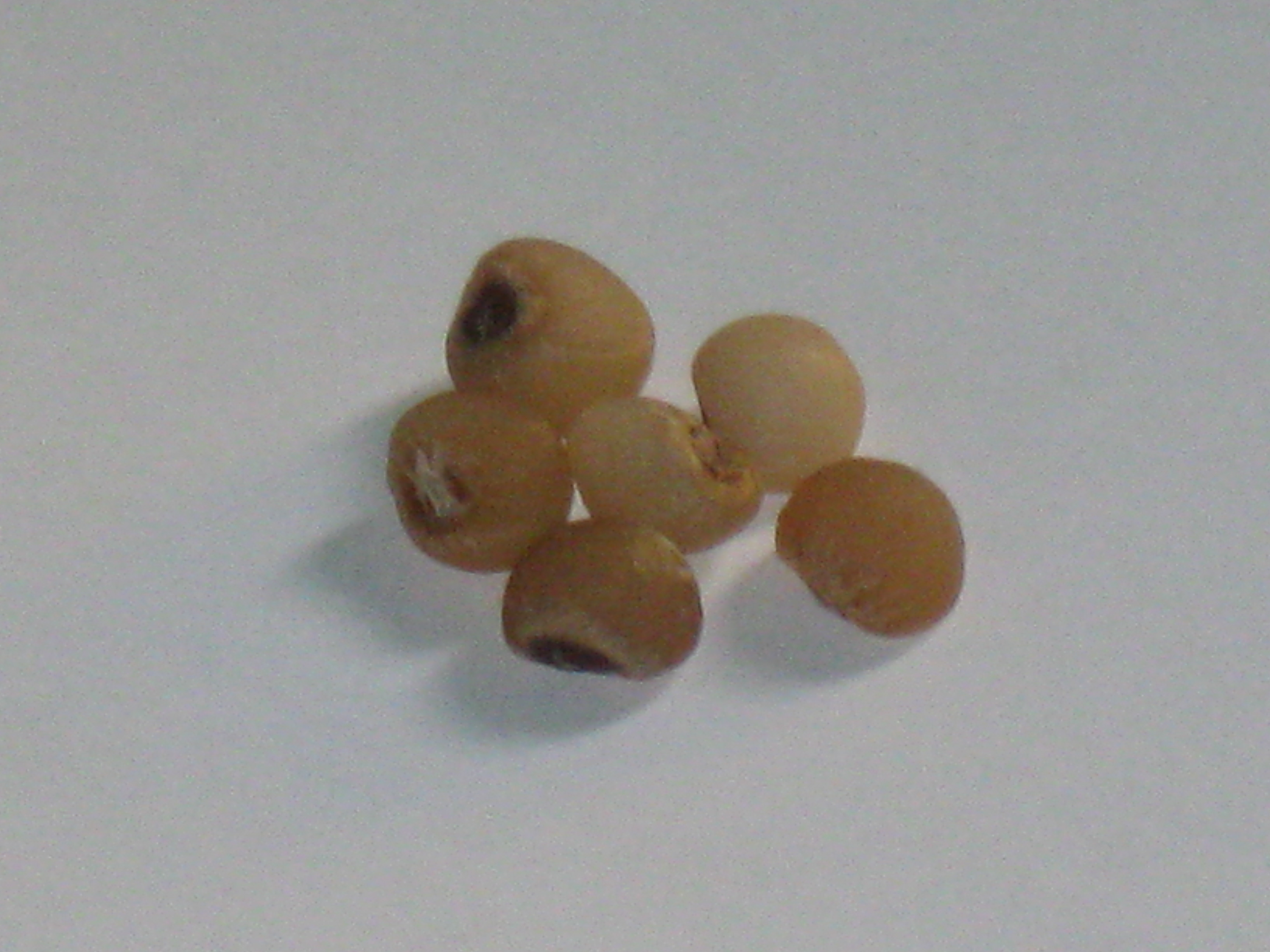 Ruscus aculeatus seeds